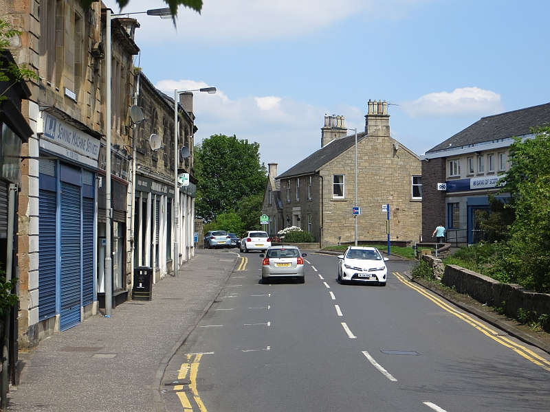 Polmont Station